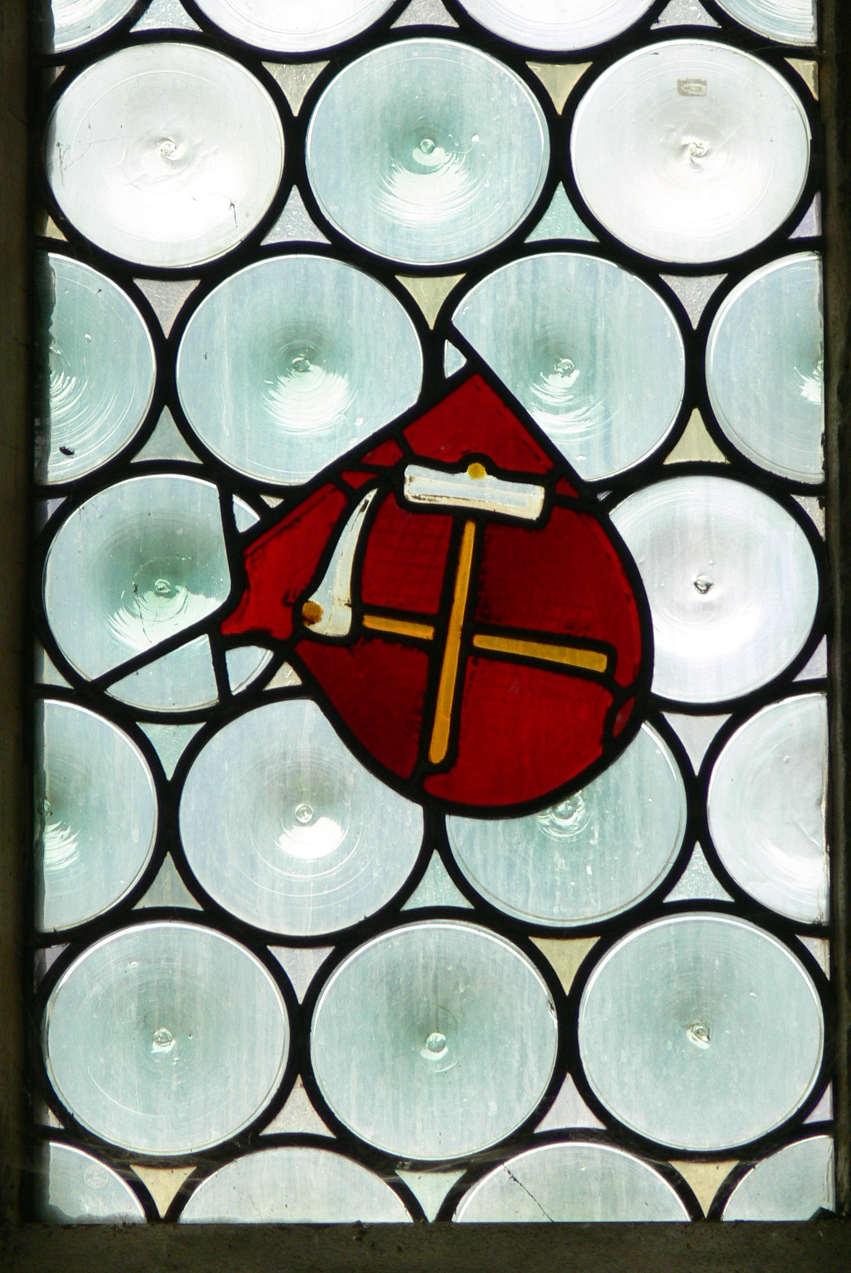 Schwaz (Tyrol). City parish church: Stained glass window (1500s) with coats of arms of the miners in Schwaz.